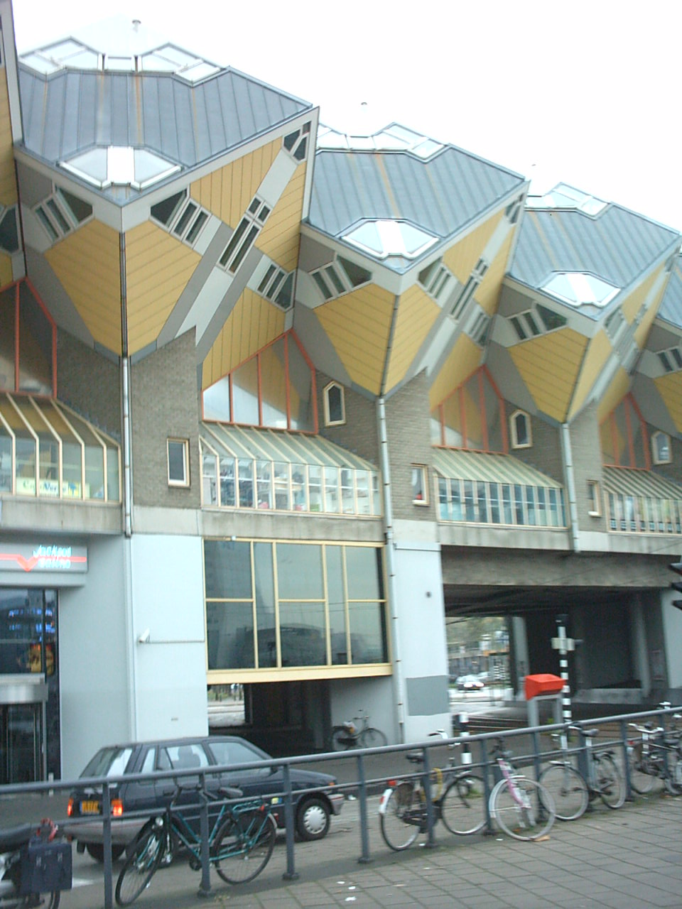 Cube houses in Rotterdam